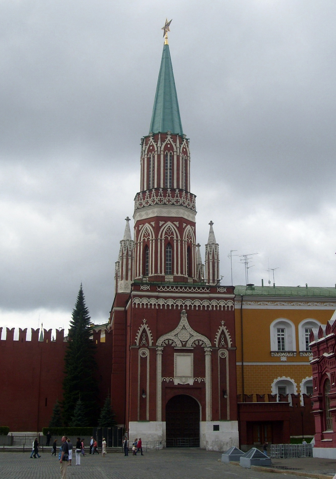 Nikolskaya tower in 2009